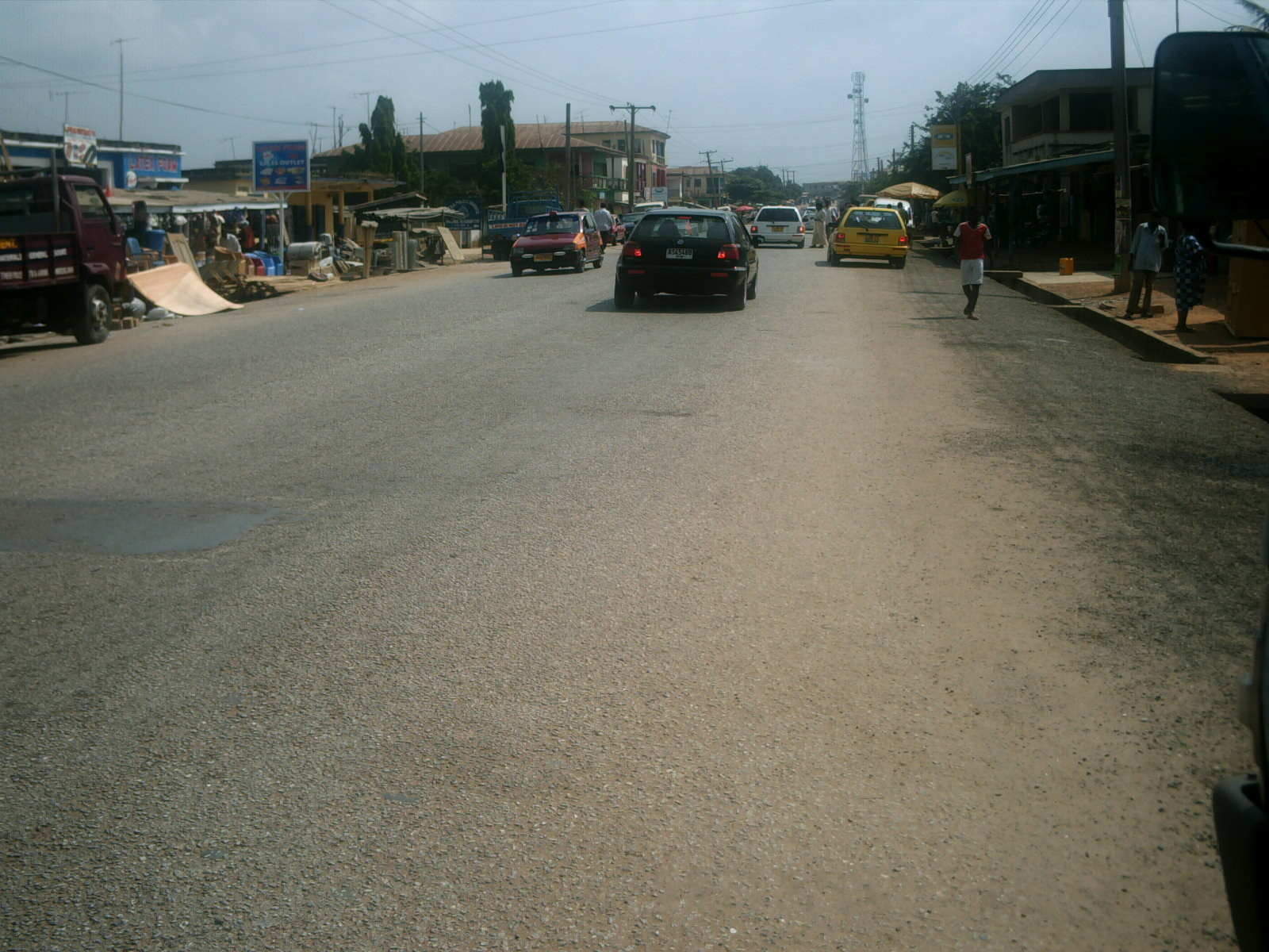 A street view in Offinso , Ashanti (This street leads to the Offinso Ahenfie (Palace) )